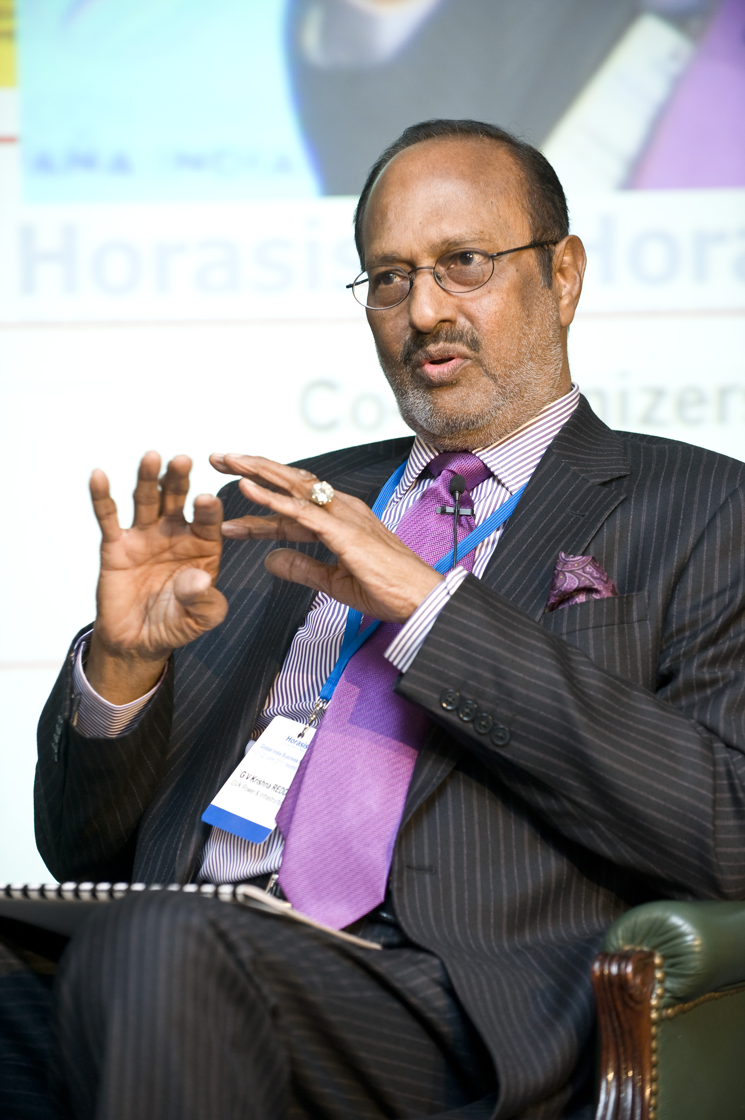 G V Krishna Reddy, Chairman, GVK Power & Infrastructure, at the 2010 Horasis Global India Business Meeting